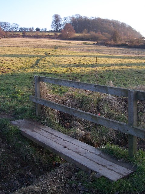 Bromyard Downs. Used as a racecourse in the early 19th century then a rifle range followed by a golf course in the early twentieth century until being ploughed up during the 2nd world war for food production.